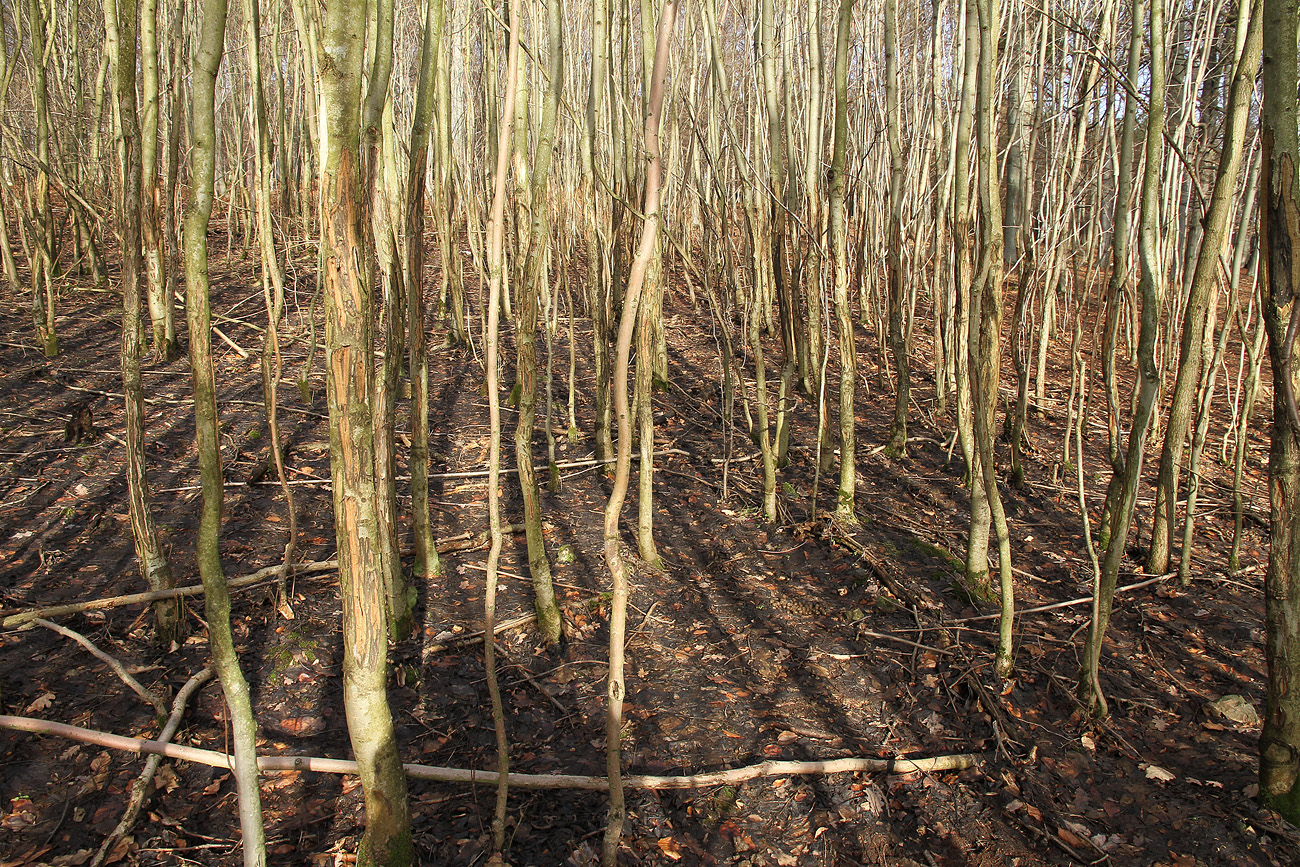 Křivoklátsko - Devastace mladých stromků zvěří